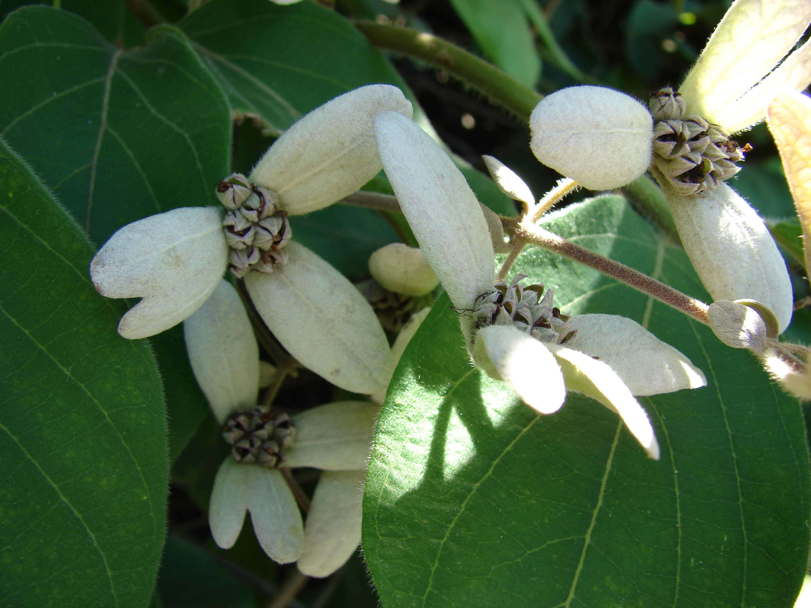 Congea tomentosa (inflorescences). Location: Maui, Enchanting Floral Gardens of Kula